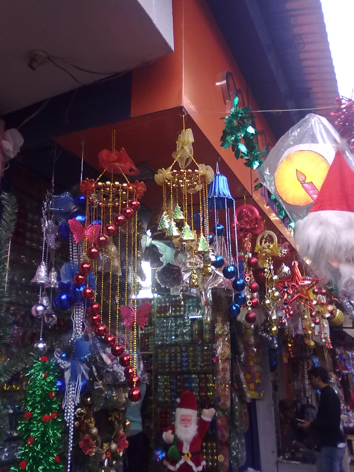 Christmas Wares in Free School Street, Kolkata